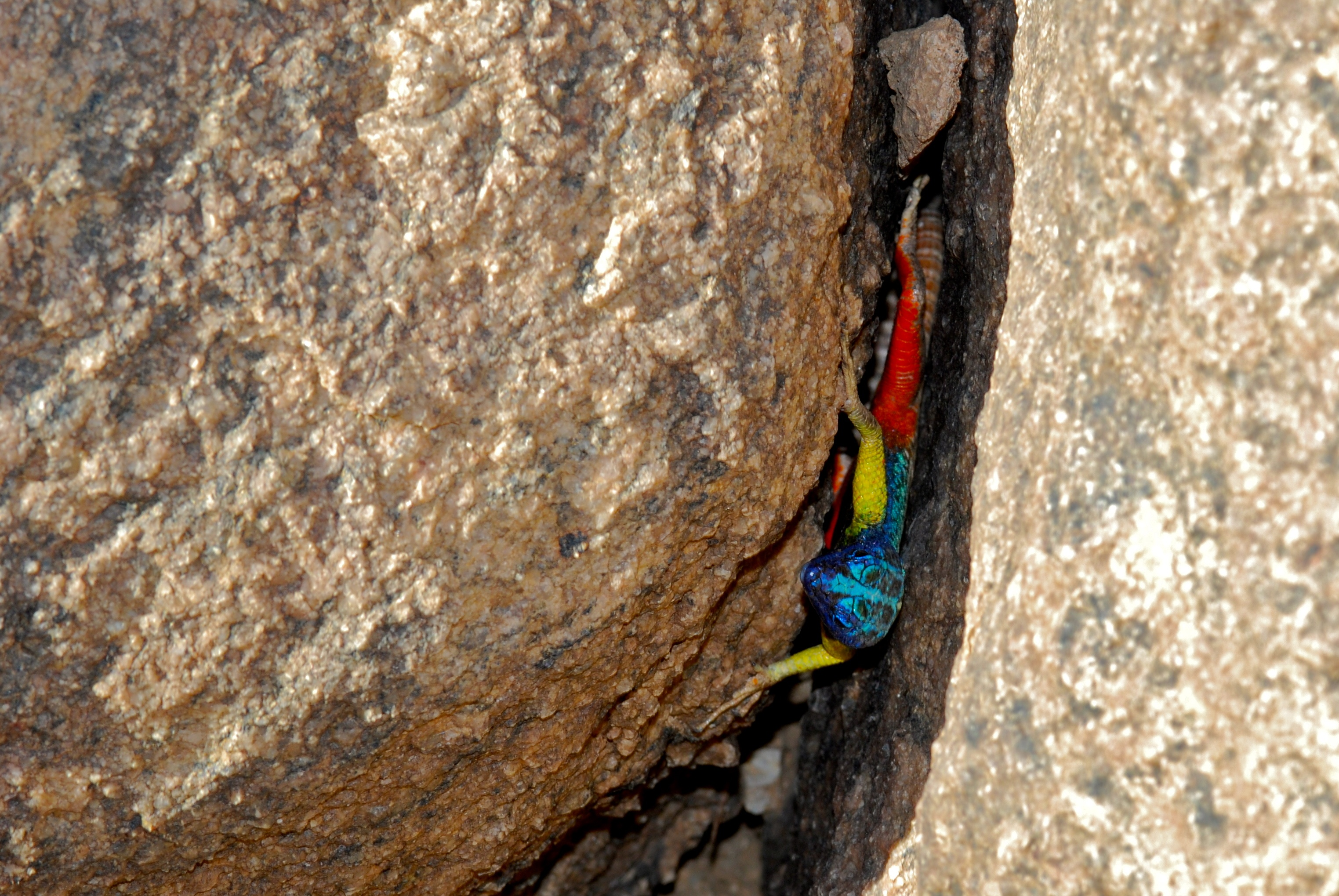 Augrabies National Park, SOUTH AFRICA